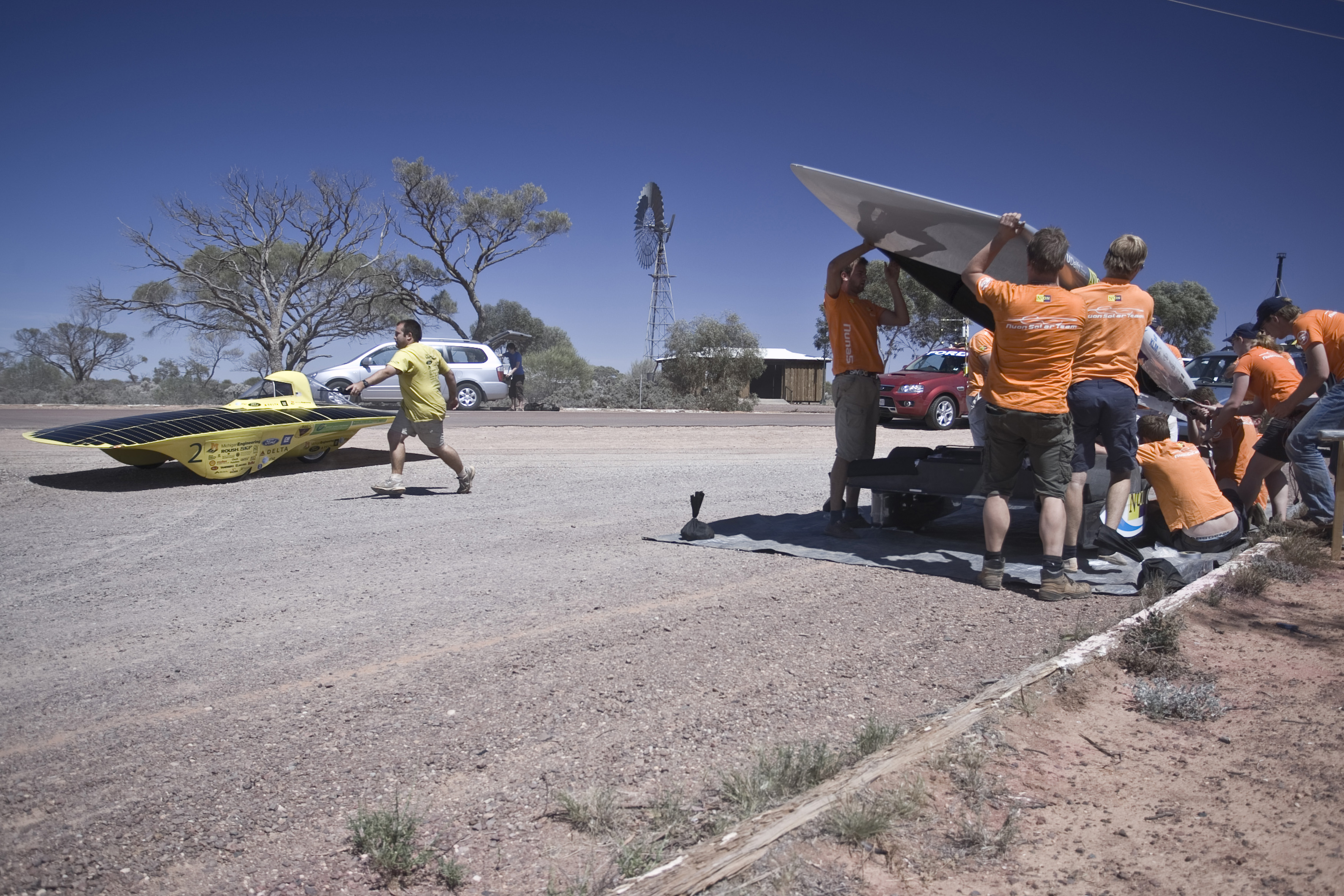 Nuon Solar Team and Michigan arrive at the same time at the first check point of the fifth racing day of the World Solar Challenge 2009